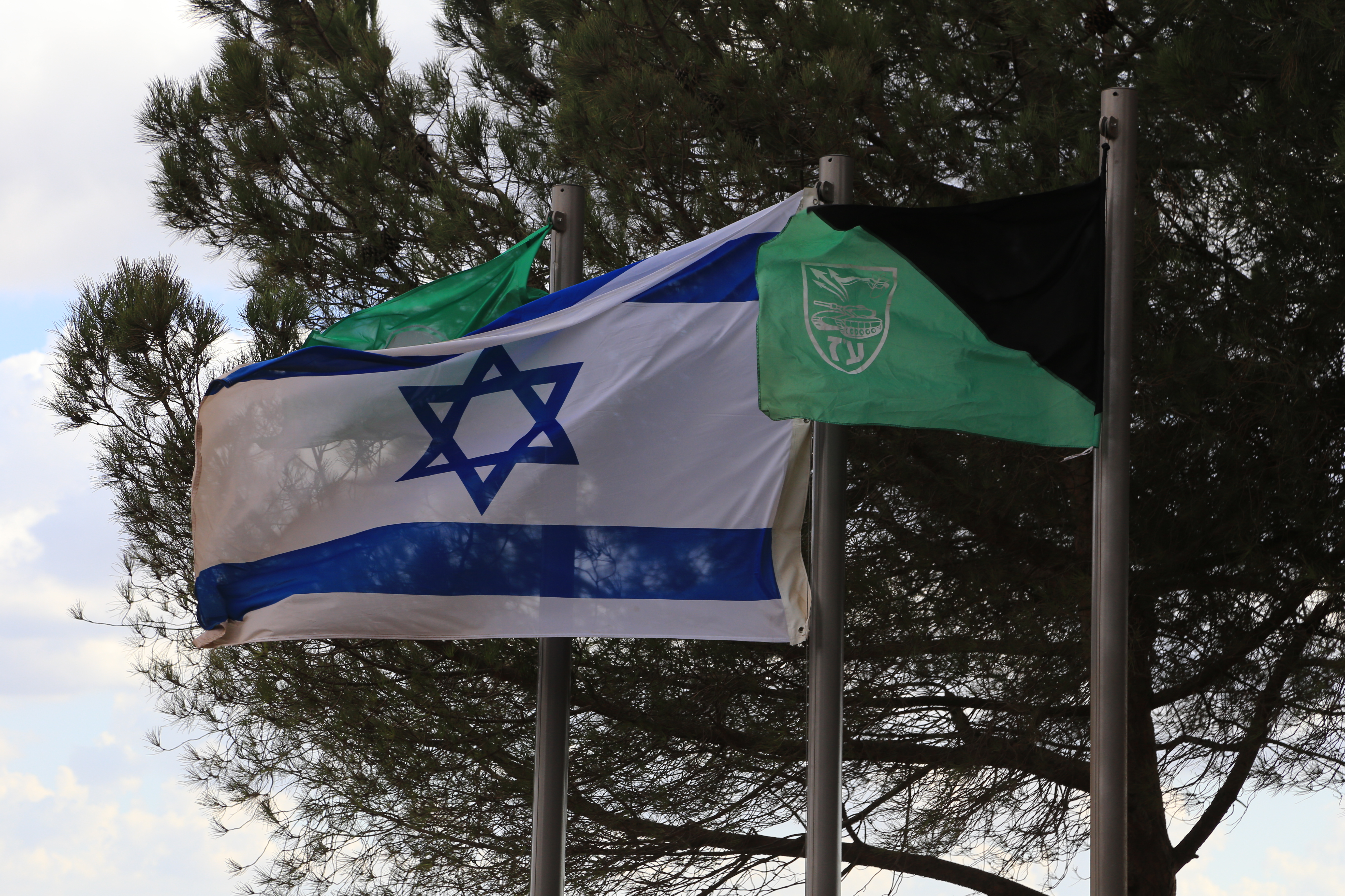 Valley of Tears - 40 years to Yom Kippur War in Golan Heights